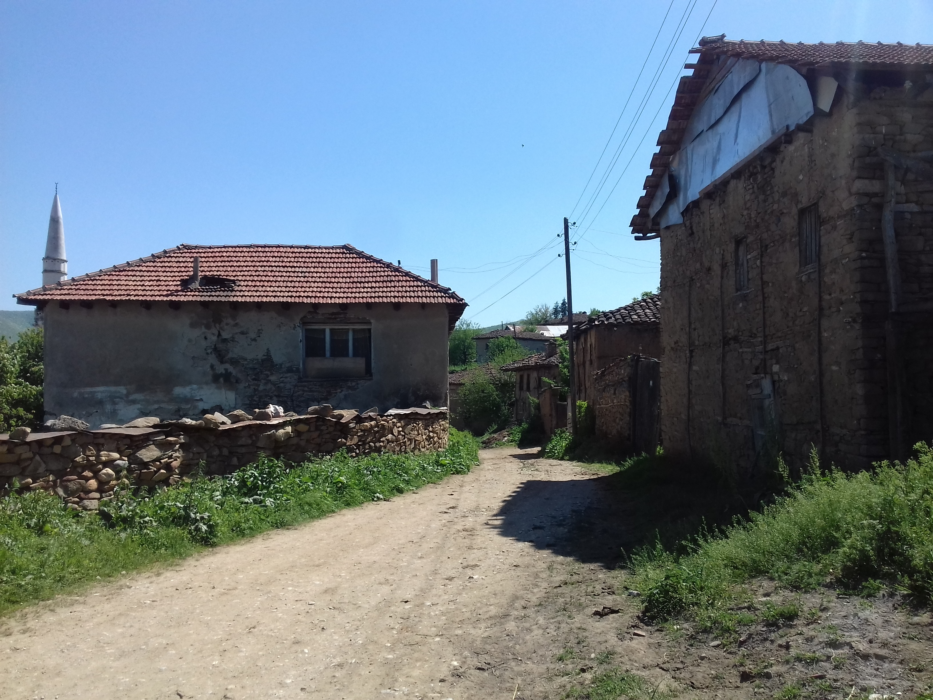 Village of Smesnica, Zelenikovo Municipality, Macedonia